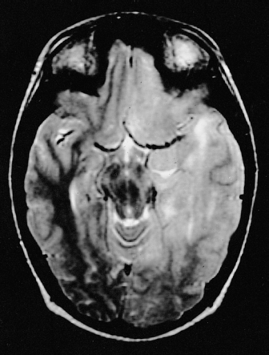 AFIP-00405606 Gliomatosis Carebri (Radiology) CNS: GLIOMATOSIS CEREBRI As is evident in this T2-weighted image, gliomatosis cerebri diffusely involves large regions of the brain, as seen on the right side of the illustration.